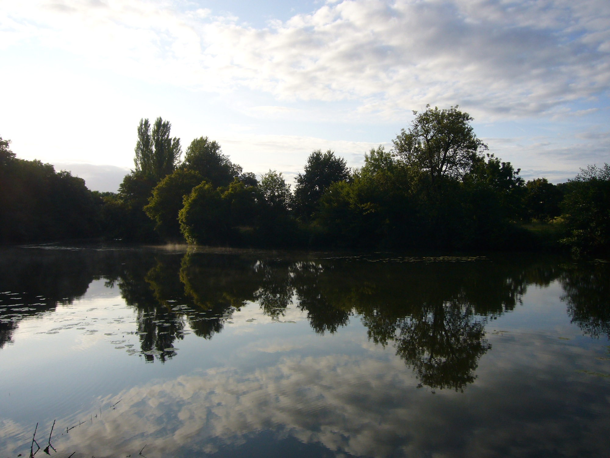 From flickr: l'Anglin as it approaches Merigny, France